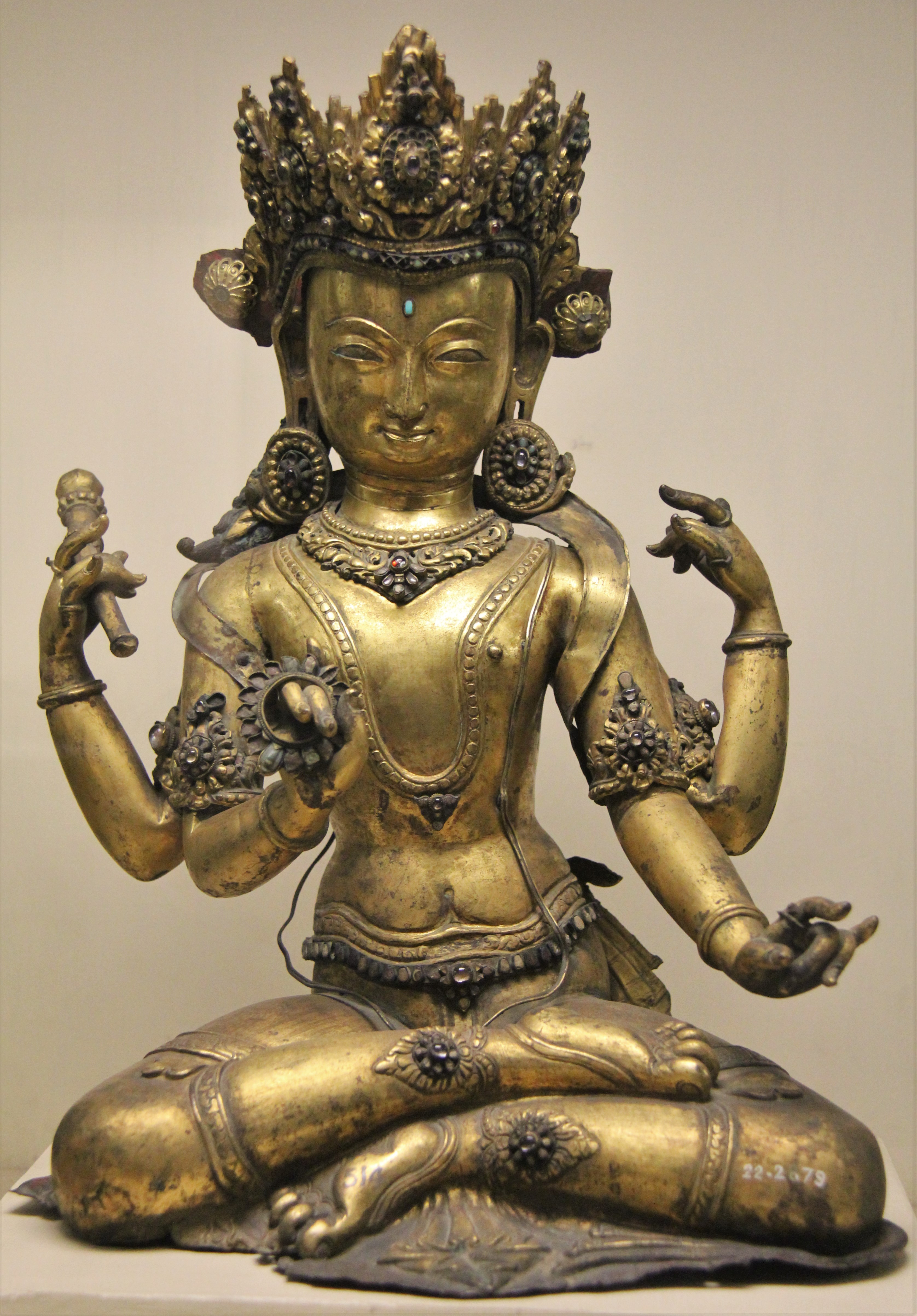 Vishnu statue from 18th century CE. Statue originates from Nepal and was a part of Ratan Tata collection. Now on display in the "Prince of Wales Museum, Mumbai" (Chhatrapati Shivaji Maharaj Vastu Sangrahalaya).